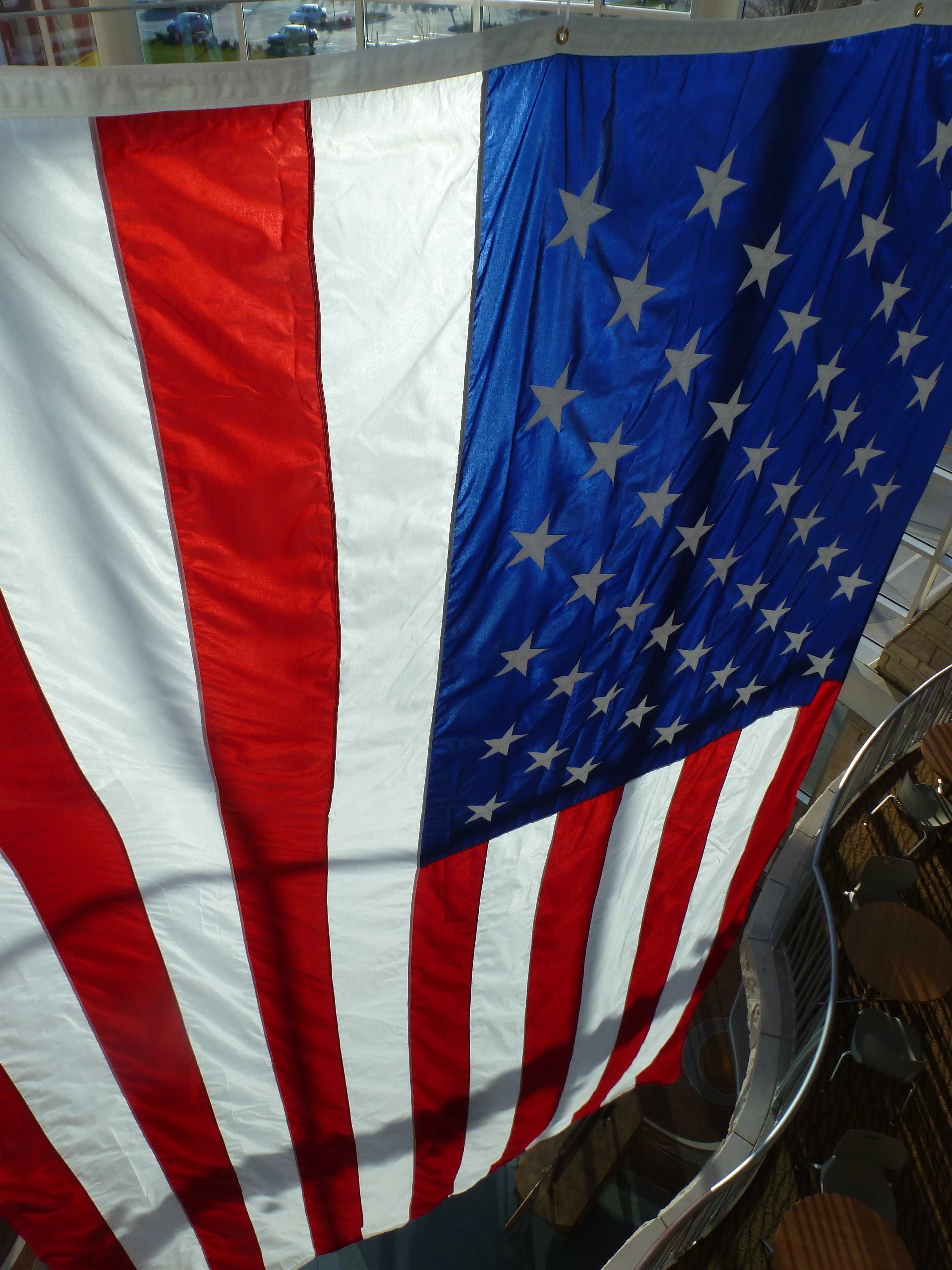 Image of the United States flag taken at the Flint Hills Discovery Center in Manhattan, Kansas on Veterans Day 2012